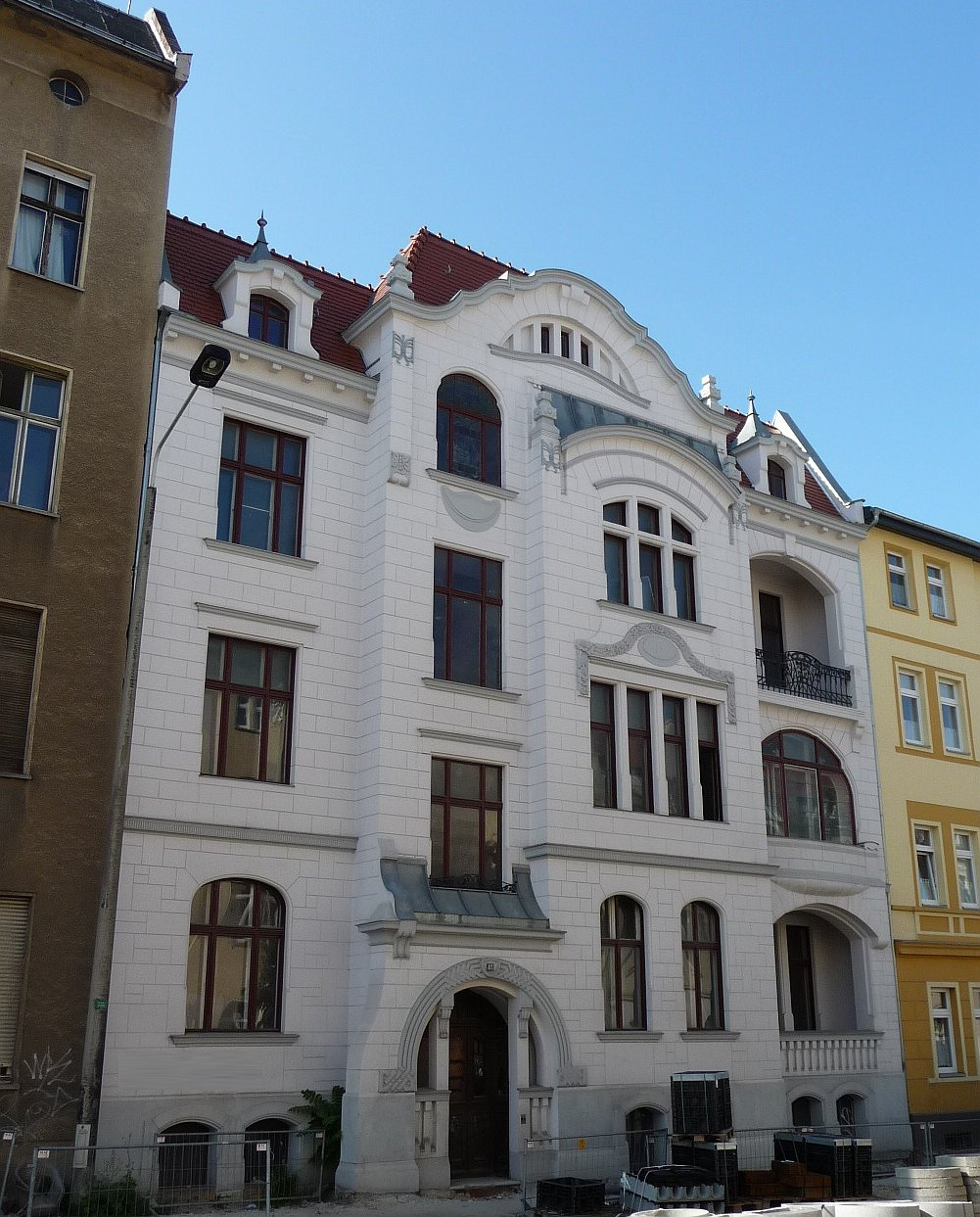 dwelling house Bahnhofstraße 45 in Cottbus, Brandenburg, Germany